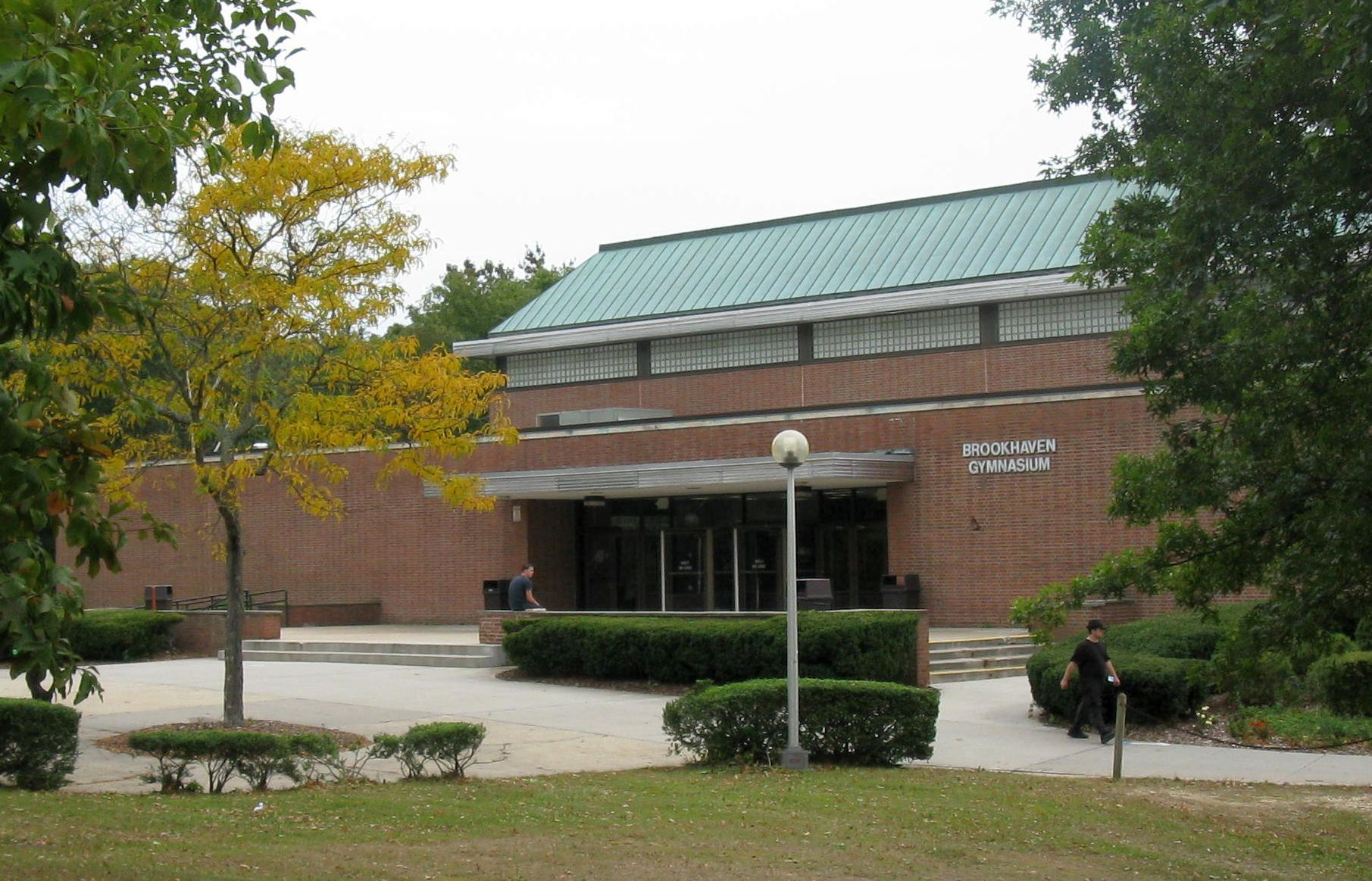 Brookhaven Gymnasium at Suffolk County Community College